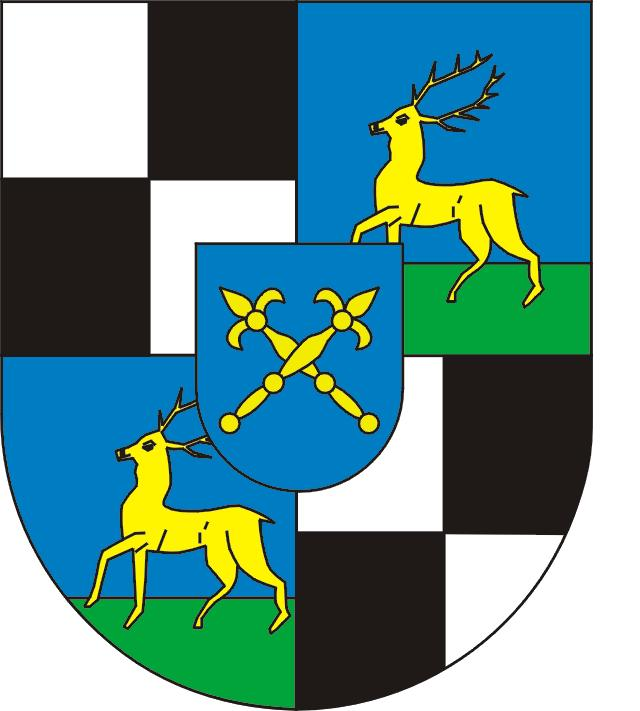 coat of arms